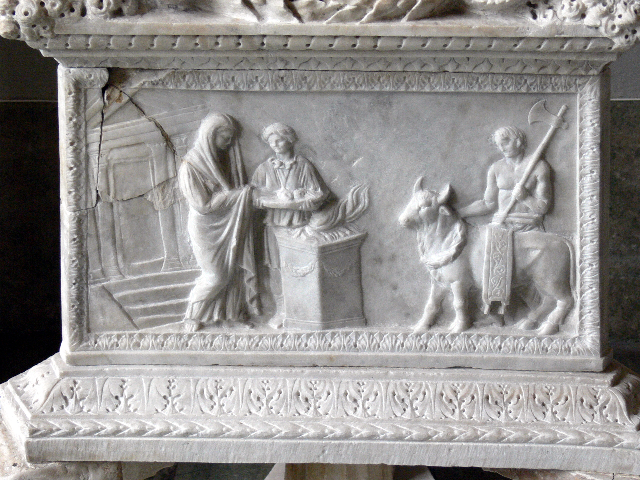 Antiques Museum in the Royal Palace, Stockholm. Roman Relief: Sacrife of a bull